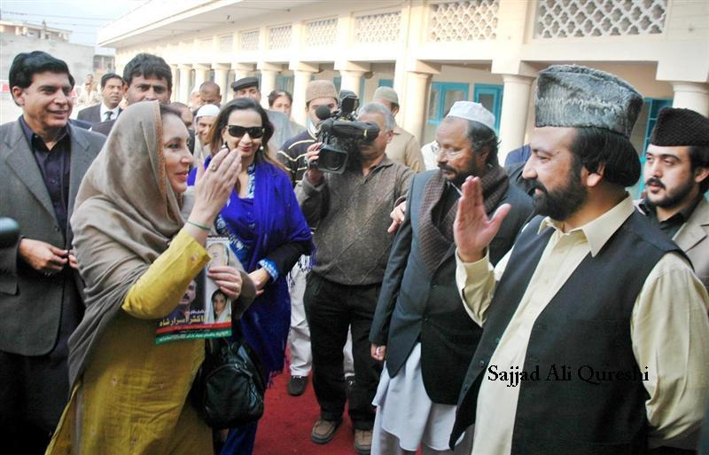 ISLAMABAD : Pakistan's former Prime Minister Benazir Bhutto visits the famous shrine of Golra Sharif on the outskirts of Islamabad, Pakistan on Thursday, Dec. 6, 2007. Kindly Do not use this or any Other Photo posted here in any form without my written permission, even not for any blog or any other such activity.Picture without watermark also available on demand